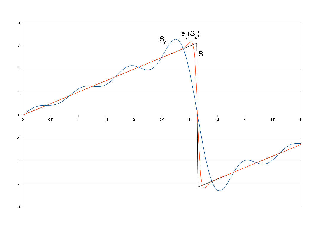 Convergence acceleration by Shanks transform of the partial Fourier serie of a sawtooth function.